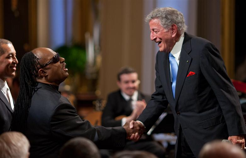 Tony Bennett meeting Stevie Wonder at the White House.